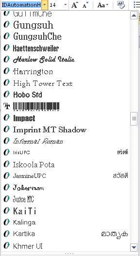 A bar code that turned into a font that can be used in any application that lets one choose the font